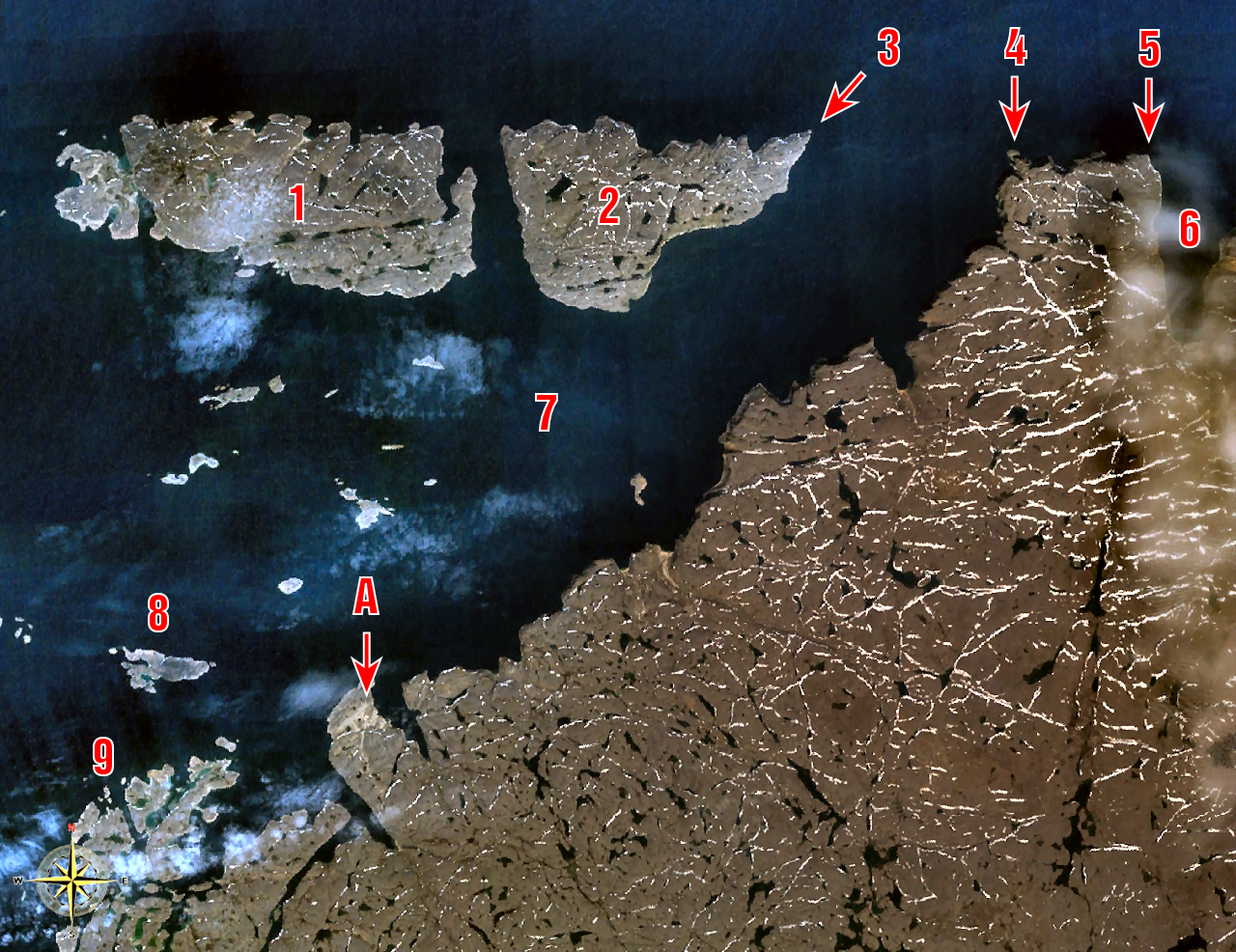 Satellite view of Digges Sound and Islands, Canada. The mainland is northern Quebec, the islands are part of Nunavut. Legend: 1 - West Digges Island 2 - East Digges Island 3 - Cape Digges 4 - Cape Wolstenholme 5 - Cape Du Châteauguay 6 - Erik Cove 7 - Digges Sound 8 - Fairway Island 9 - Nuvuk Islands A - Ivujivik village